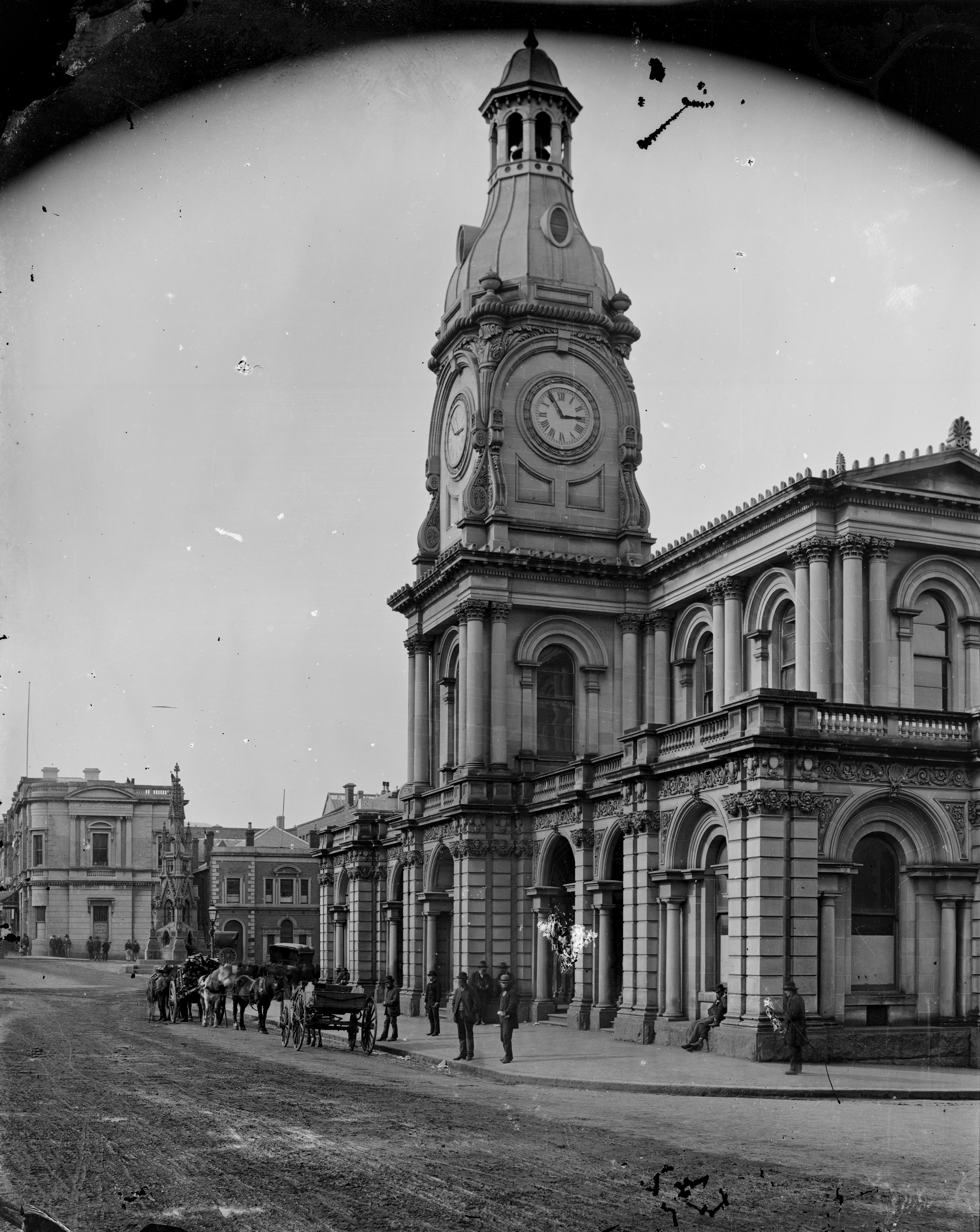 Colonial Bank of New Zealand, Dunedin"This handsome pile of buildings was originally erected by the General Government as the Chief Post Office for the Provincial District of Otago, but finding that the existing post office answered present requirements, it was handed over to the Otago University. It, however, proved unsuitable for the University buildings, and was in due time sold to the Colonial Bank, which institution carried on banking business within its precincts up to the time of the merging of that institution into the Bank of New Zealand. A couple of years ago" (1900) "the building was purchased by a company comprised chiefly o£ members of the Dunedin Stock Exchange, whose business is conducted in the main hall of the building." Otago Witness 14 May 1902 Page 35